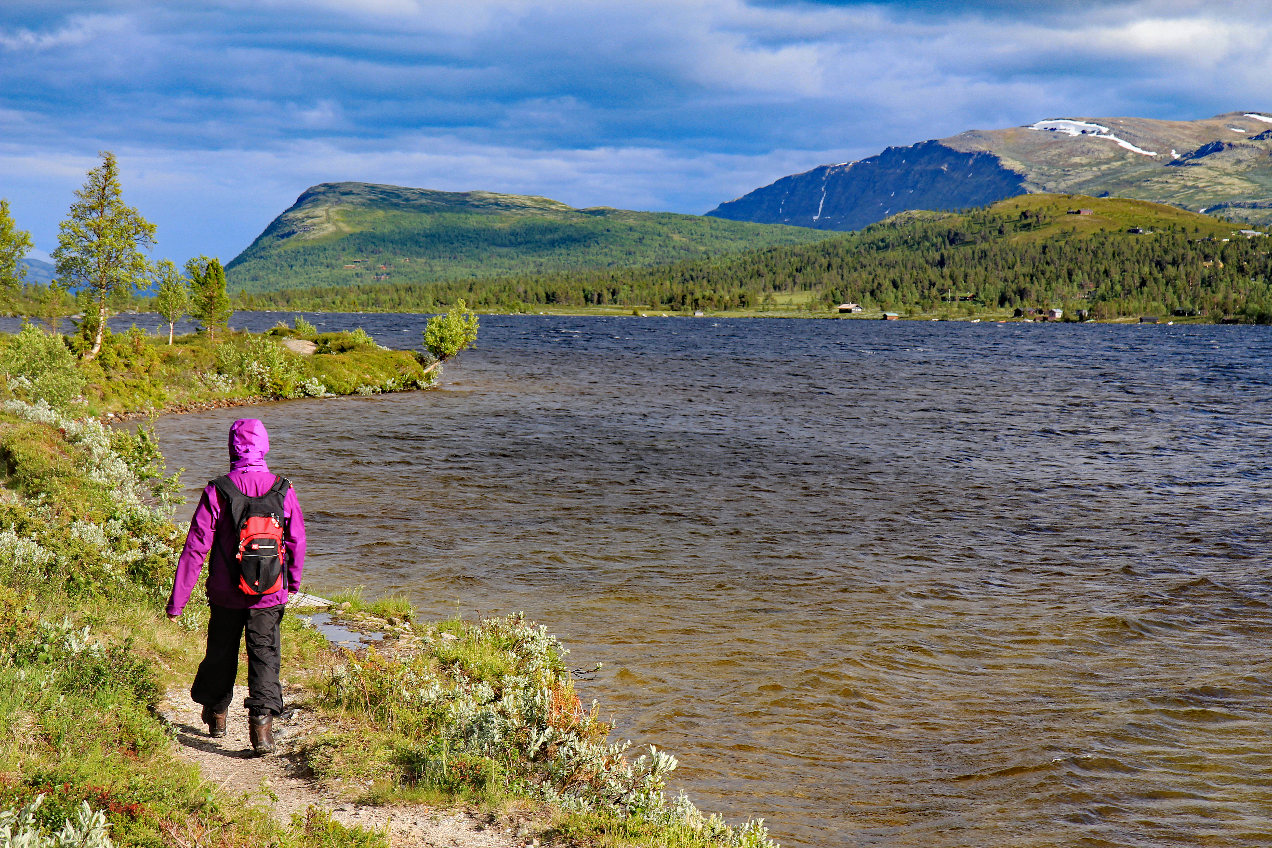 Walking along Lake Furusjøen in the Kvamsfjella Mountains in Norway